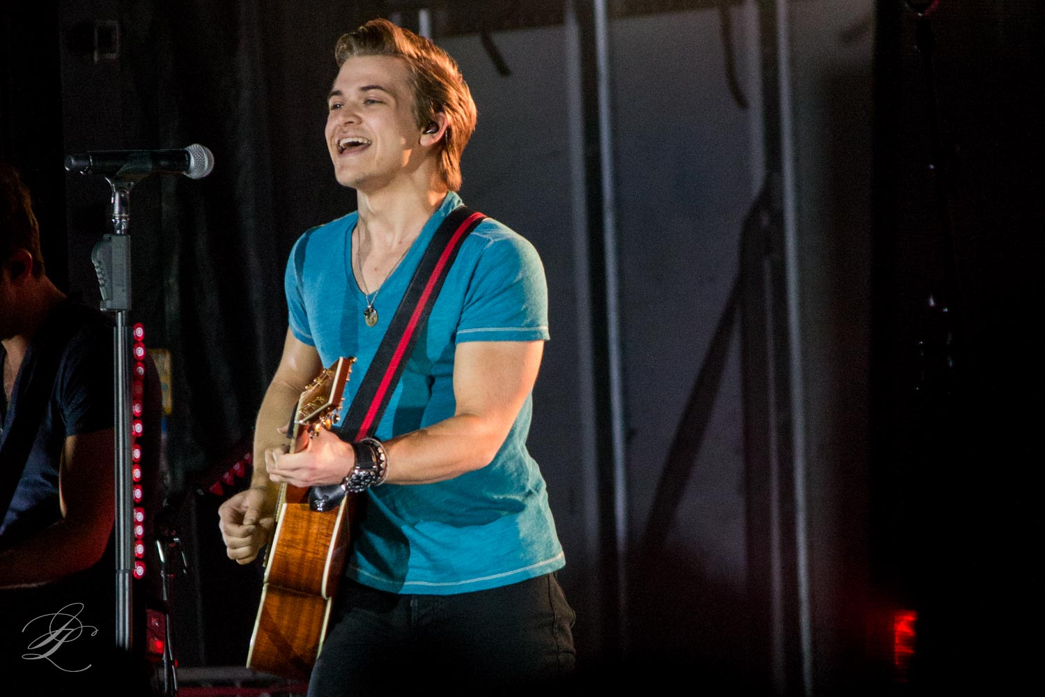 Hunter Hayes performs at the Logan County Fair in Sterling, CO on August 10, 2013.